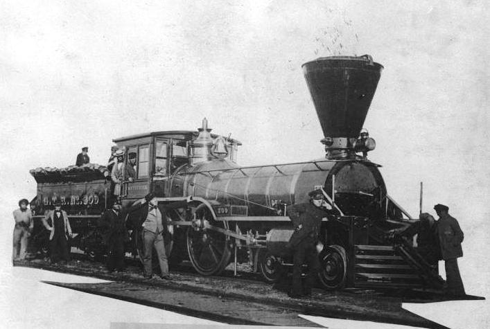 Photograph, G. T. R. engine "Trevithick", detail of Victoria Bridge paste-up, Montreal, QC, 1859, William Notman (1826-1891), Silver salts on glass - Gelatin dry plate process - 27 x 35 cm